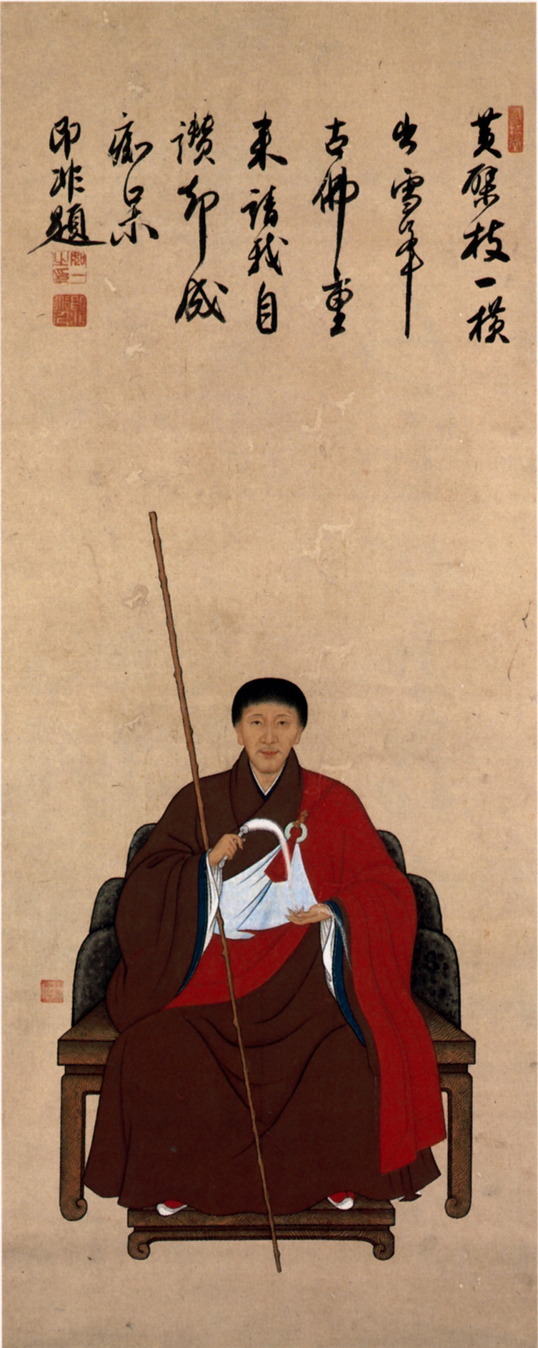 Portrait of Jifei ,Kita Chobei,Inscription by Jifei,Triptych hanging scrolls,color on paper,Kobe City Museum